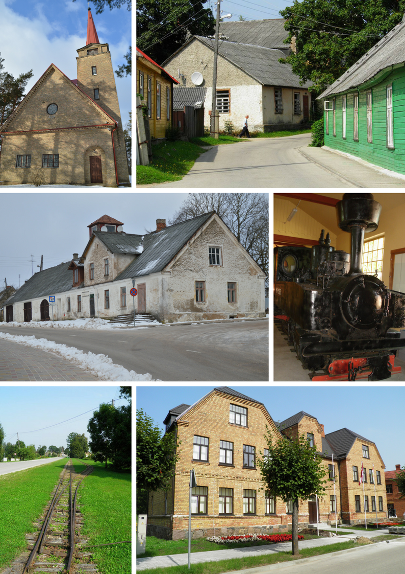 Viesīte town collage.